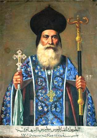 Ignatius Gregory Peter VI Shahbaddin potrait